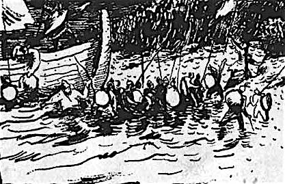 Saracens in battle by Garigliano 915 in water